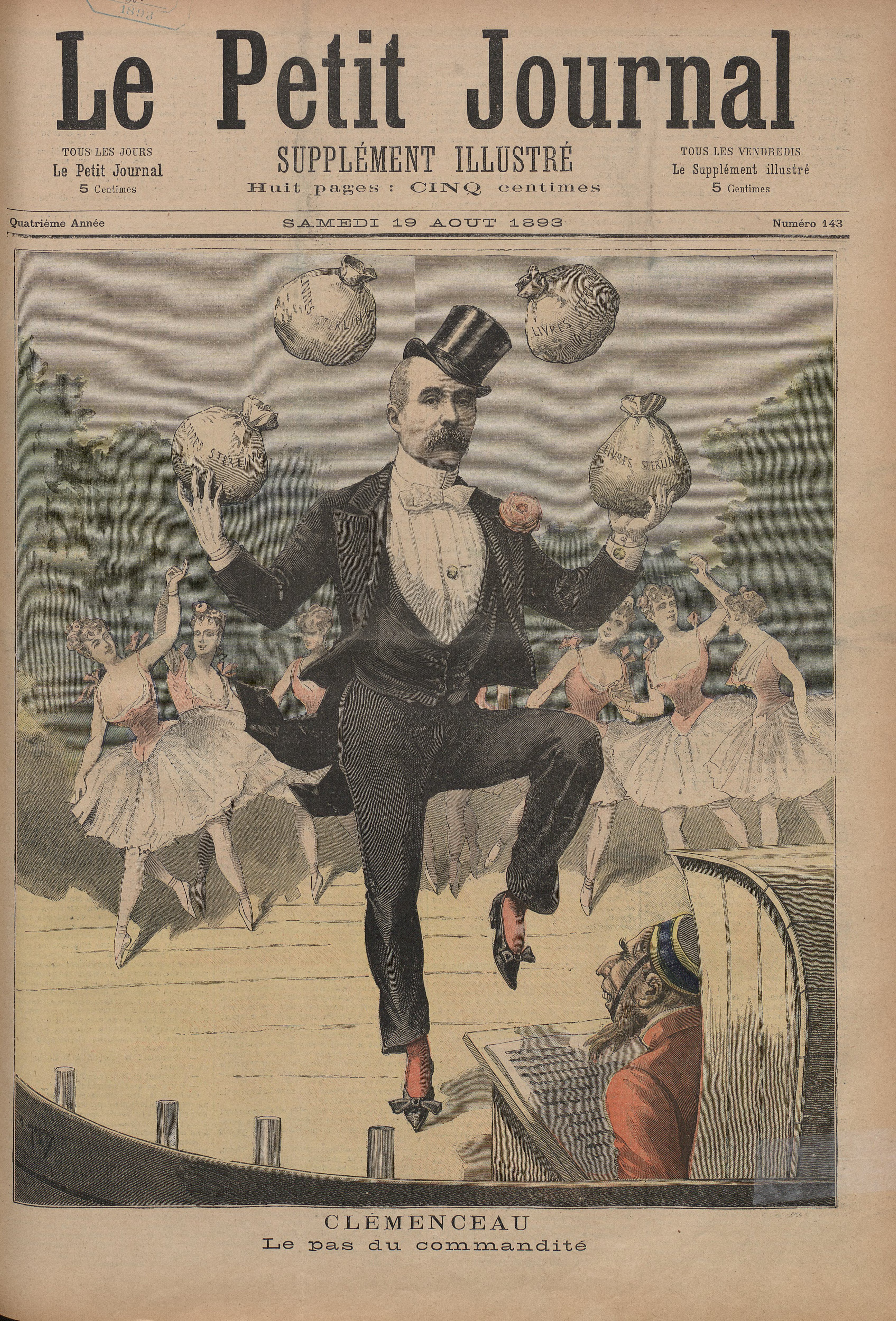 This is a 1893 printing of the Petit Journal Illustré (supplement of the Petit Journal) published on August, 19. It is an attack on Georges Clemenceau, candidate to the 1893 legislative elections in the Var. He is dancing with bags of Sterling Pounds, according to popular attacks at the time against him, treating him as an "agent of the United Kingdom" and claiming he was involved in various scandals (Panama, etc.). According to Michel Winock's 2007 biography (p.202), the guy whispering to him with a "semitic nose" would be Cornelius Herz, but it's rather a stereotyped (frequent in this illustrated newspaper) representation of the English people. This drawing goes hand in hand with an article by Emile Judet, in the Petit Journal (August 19, 1893), called "La litanie de Clemenceau", a vicious attack on the later.